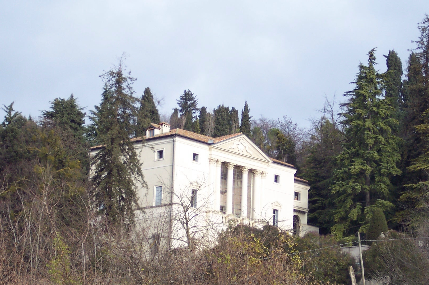 Villa Franceschini Pasini Canera di Salasco (1770), Arcugnano. The villa was built for the silk-merchant Girolamo Franceschini. Architect: Bertotti Scamozzi.